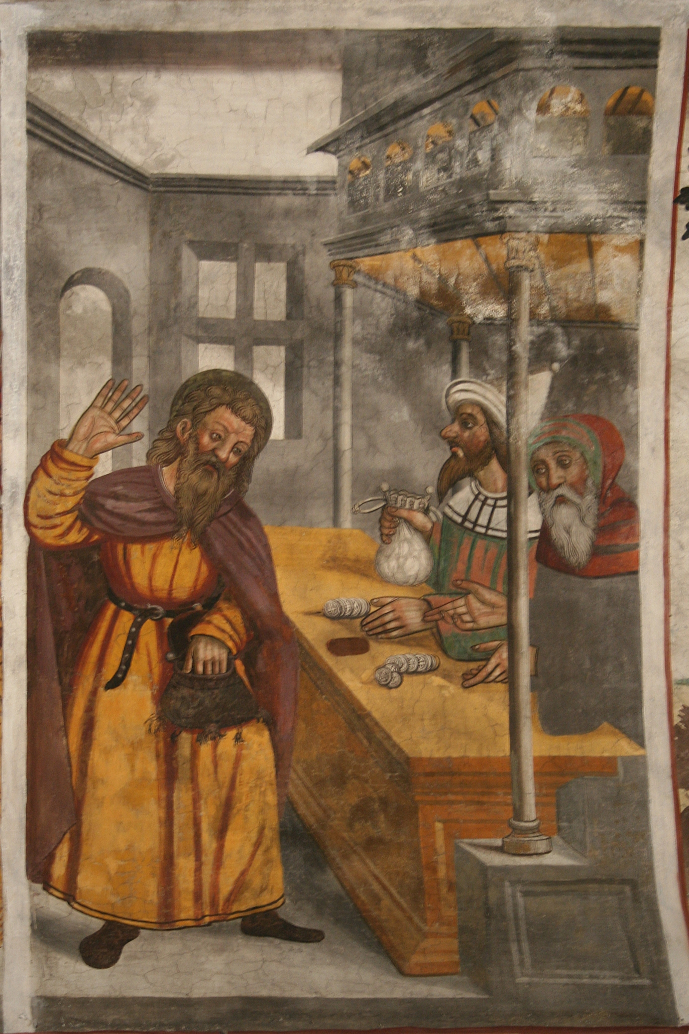 Judas being paid thirty pieces of silver, for the betrayal of Jesus. 16th century fresco painting on the vault in the Saint Sébastien Church, in Planpinet. Clarée valley, Hautes alpes département, France.